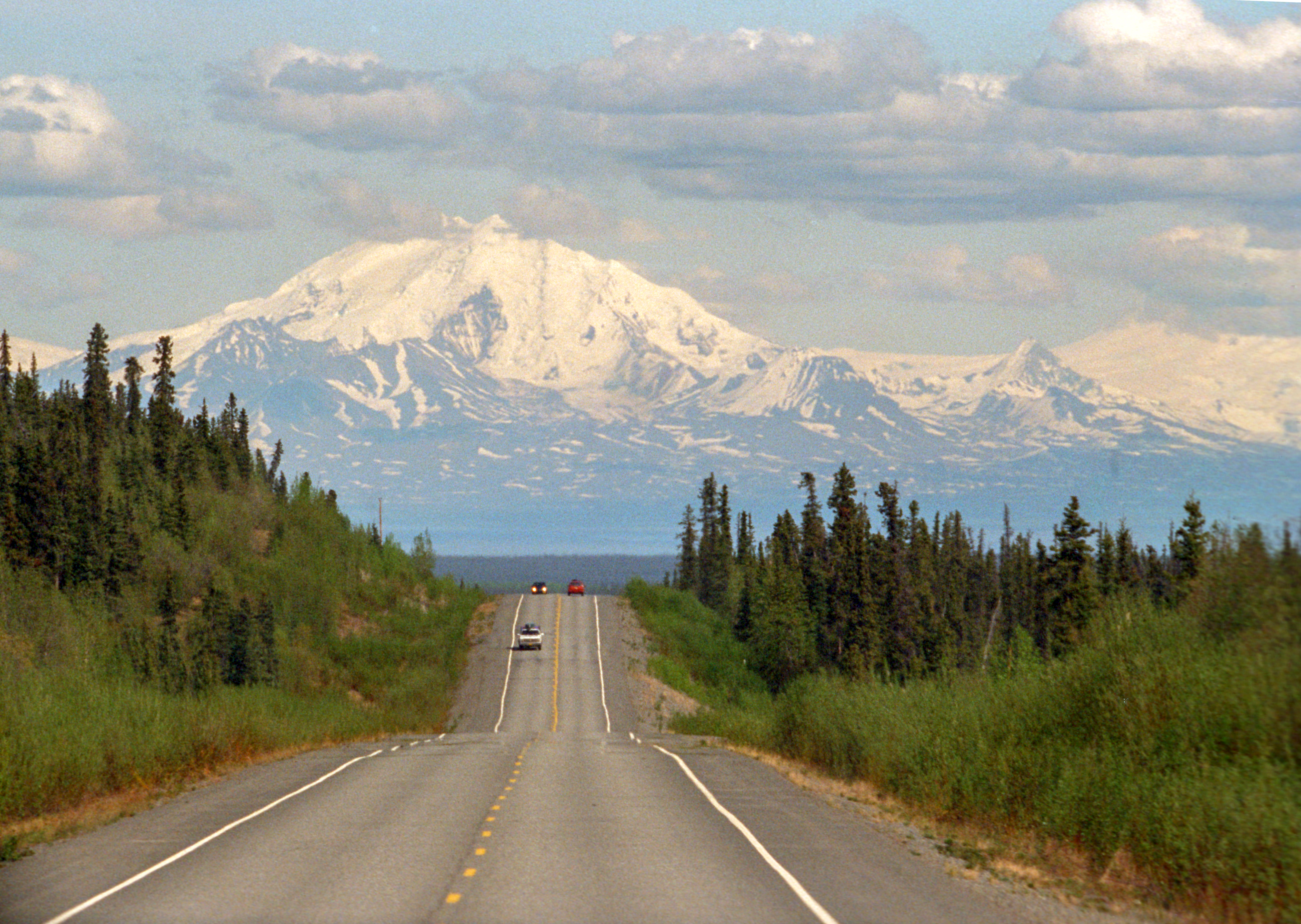 Looking east from Glenn Highway towards Mt. Drum, showing the Copper River Basin.